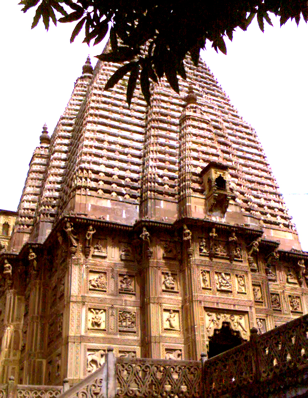 This is the 500 years old Durga Temple, situated in Ramnagar, Varanasi. [COMMENT - This temple was actually commissioned by Raja Chet Singh and completed by Udit Narayan and his successor in the late 18th century. One of many sources for this is Philip Lutgedorf's book _The Life of a Text: Performing the Ramcaritmanas of Tulsidas_ (University of California Press, 1991), p. 265. If you look, you will find many others in both primary and secondary scholarly texts.]